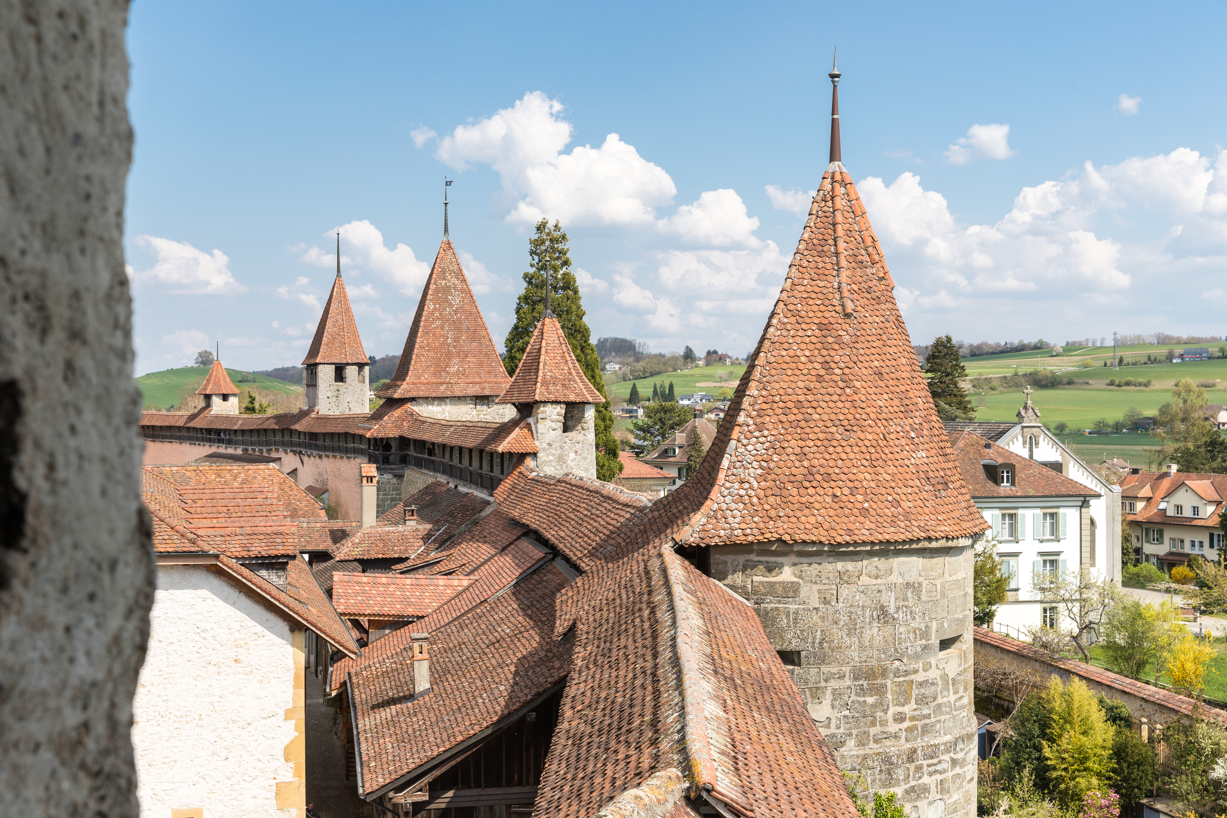 City wall and towers of Murten/Morat, Switzerland